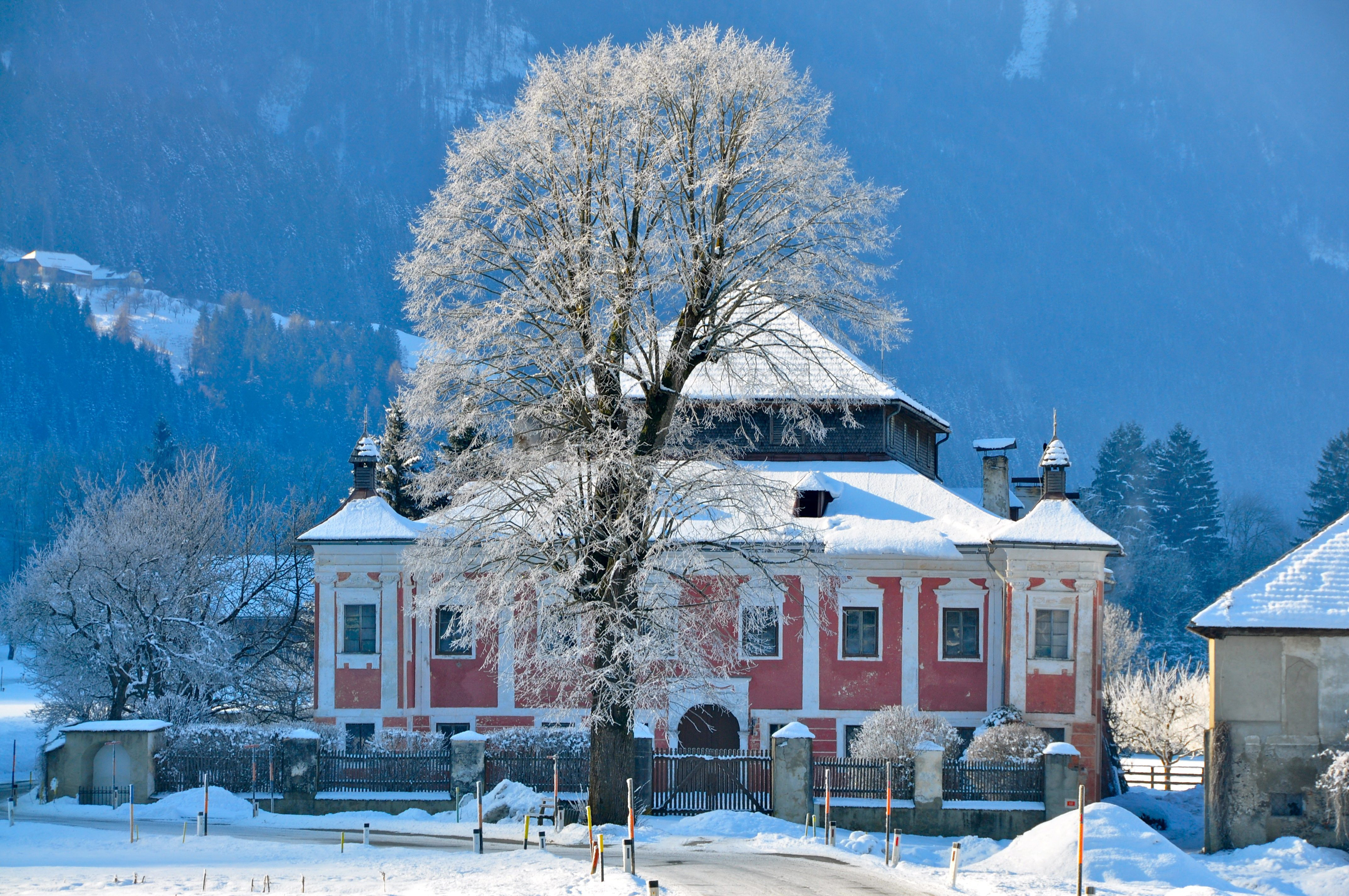 Castle Raggnitz at Raggnitz #1, municipality Steinfeld, district Spittal an der Drau, Carinthia, Austria